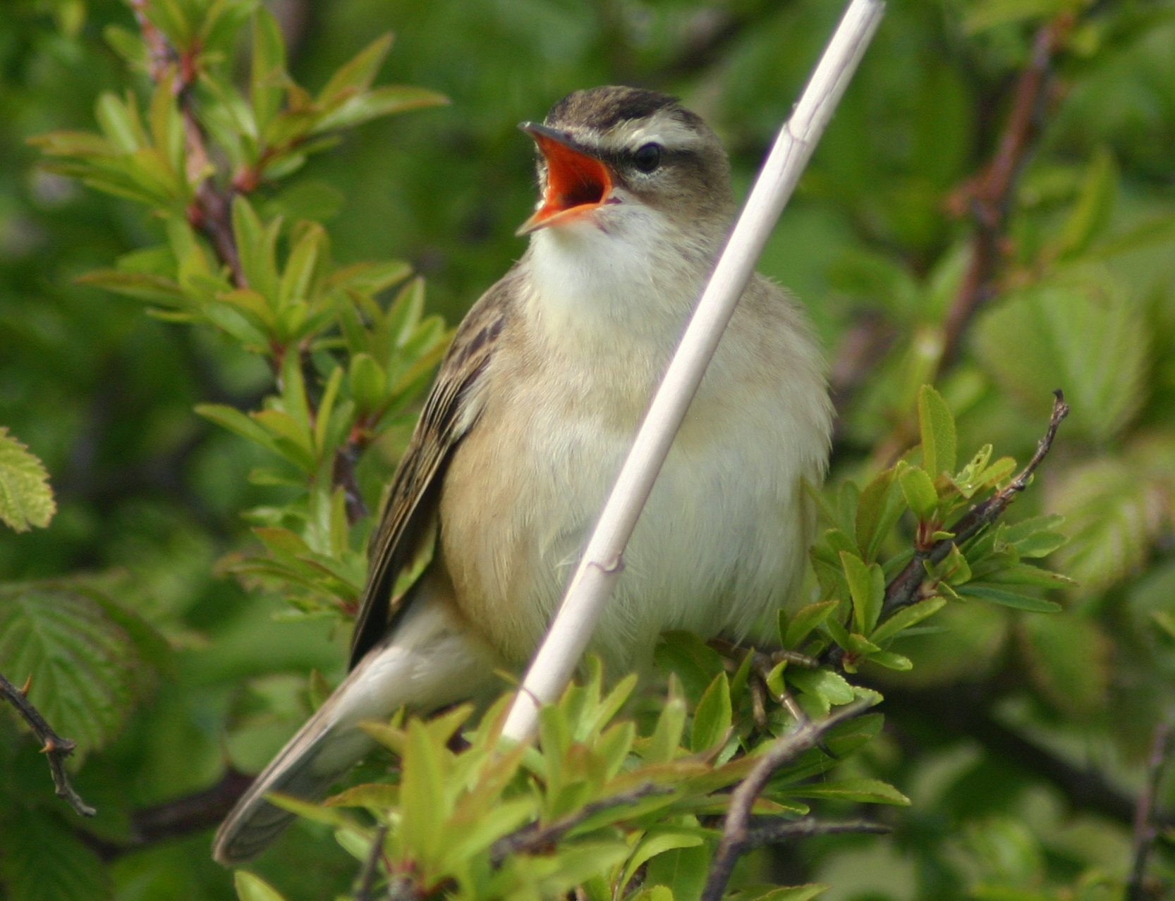 Sedge Warbler at Pevensey Levels, East Sussex, England